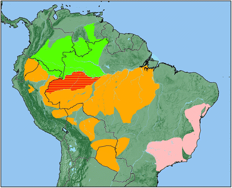 The geographic distribution of Cheracebus (green), Callicebus (pink) and Plecturocebus (orange). The area of sympatry between species of Cheracebus and Plecturocebus is shown in red.